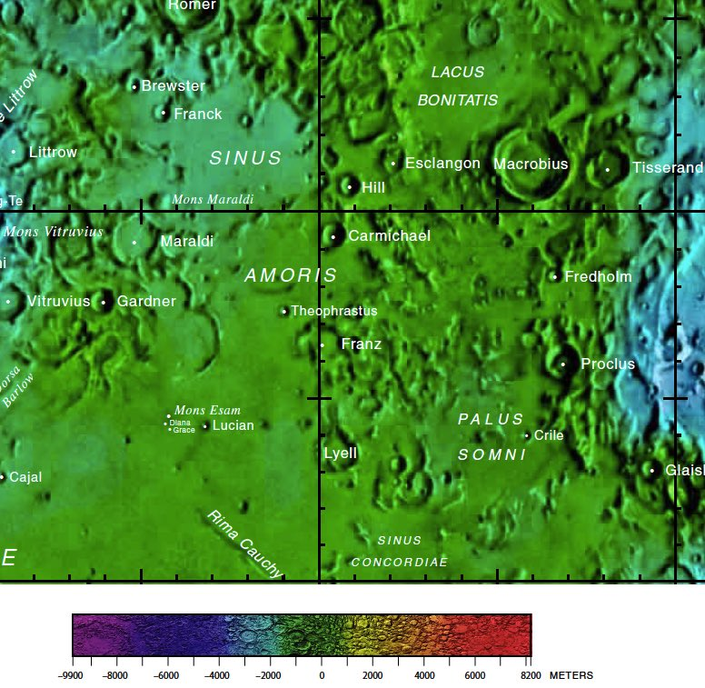 Part of the USGS near side lunar chart